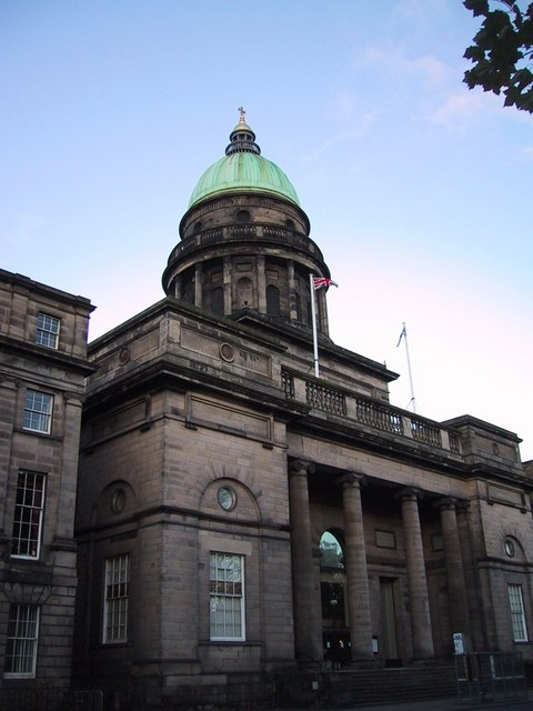 West Register House This building is on the west side of Charlotte Square.